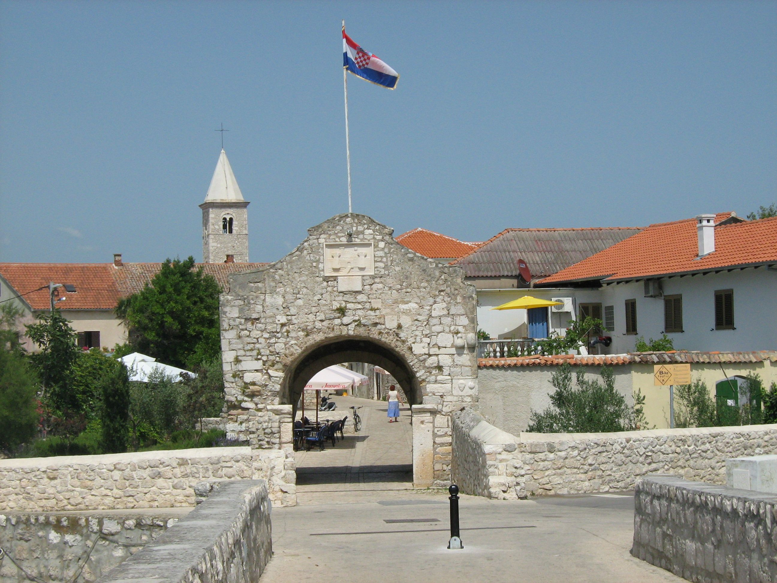 Lower gate in Croatian city Nin